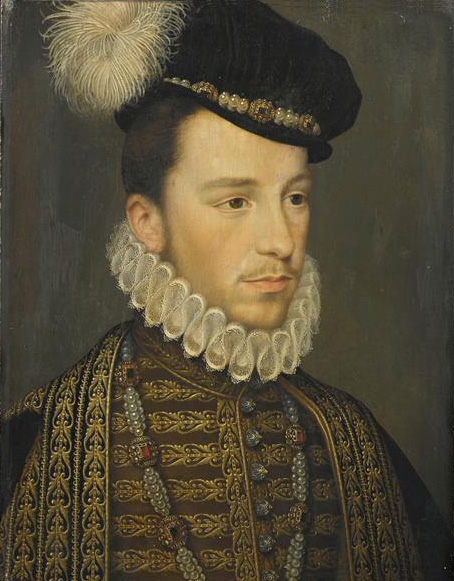 This portrait of the later Henry III of France was long mistaken for a portrait of his younger brother Francis of Alençon, due to a false inscription at the bottom of the portrait. (Not shown here.) The preparatory sketch that formed the basis of this work, preserved in the National Library of France, shows clearly that this is Henry III.